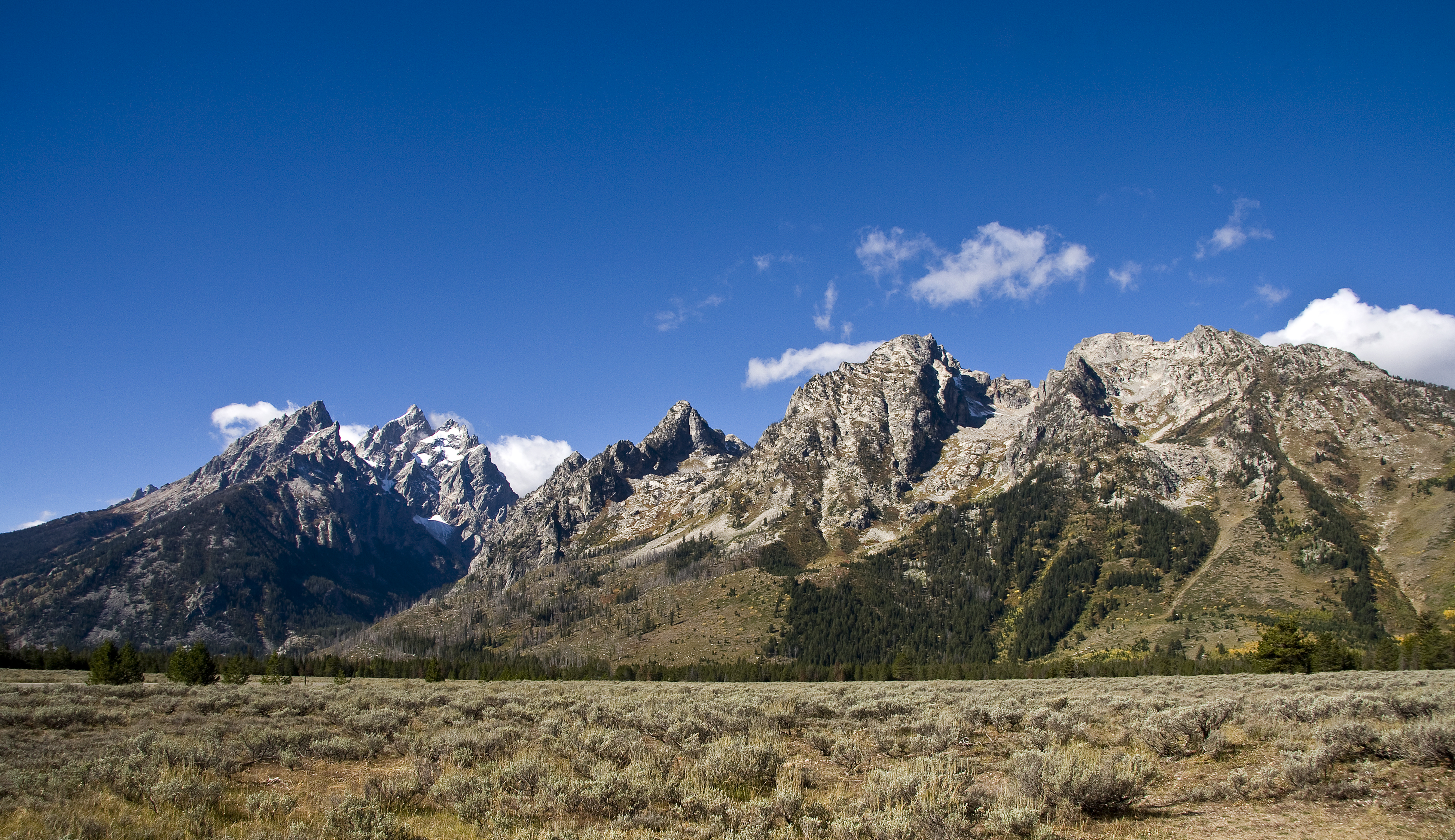 From left, Cathedral Group (Teewinot Mountain, Grand Teton, Mt. Owen), Cascade Canyon, Symmetry Spire, Hanging Canyon, Mount St. John and Rockchuck Peak in Grand Teton National Park, Wyoming, USA.